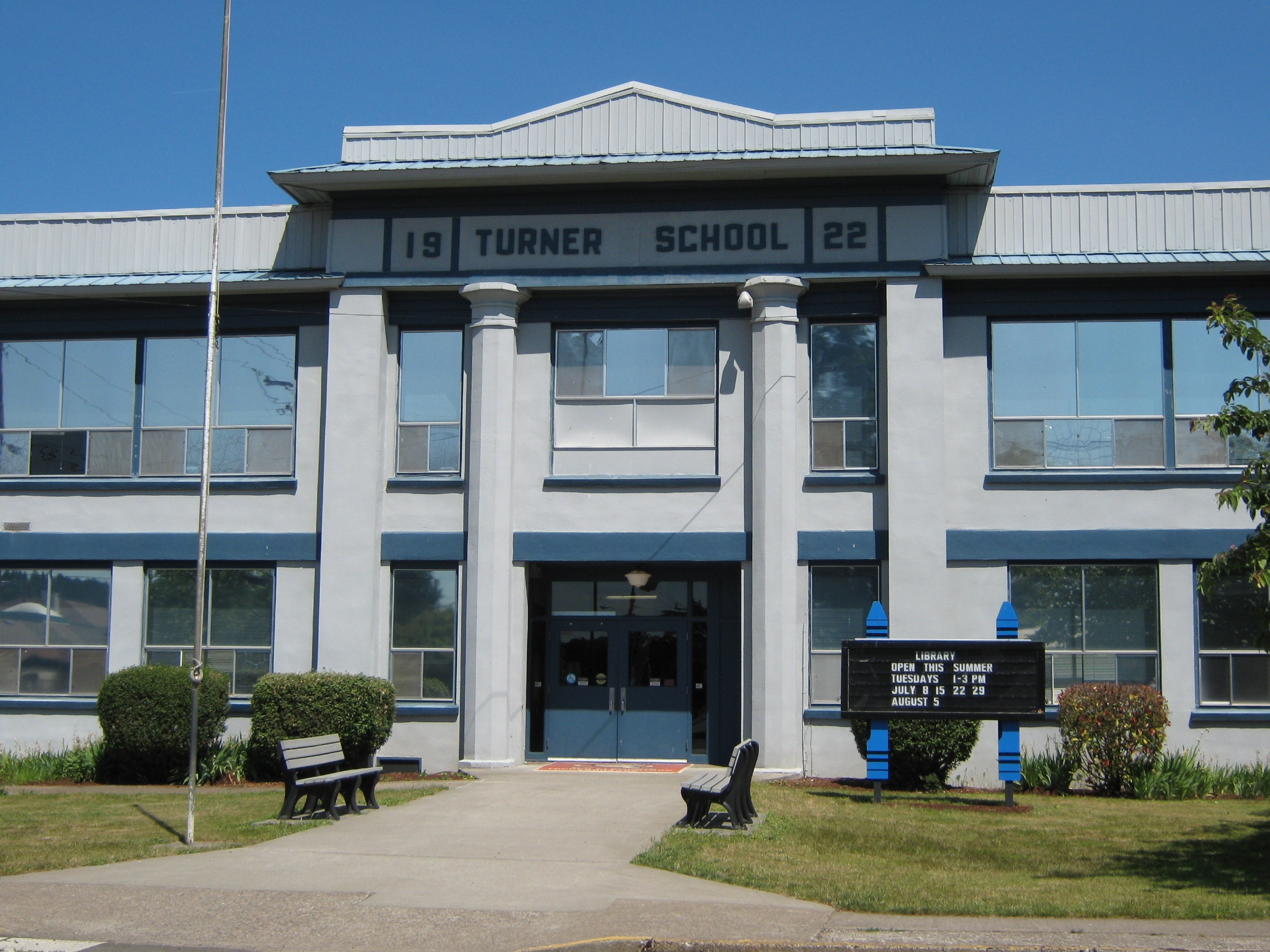 School in Turner, Oregon built in 1922. Originally for grades 1-12, currently serving as an elementary school. History from Cascade School District